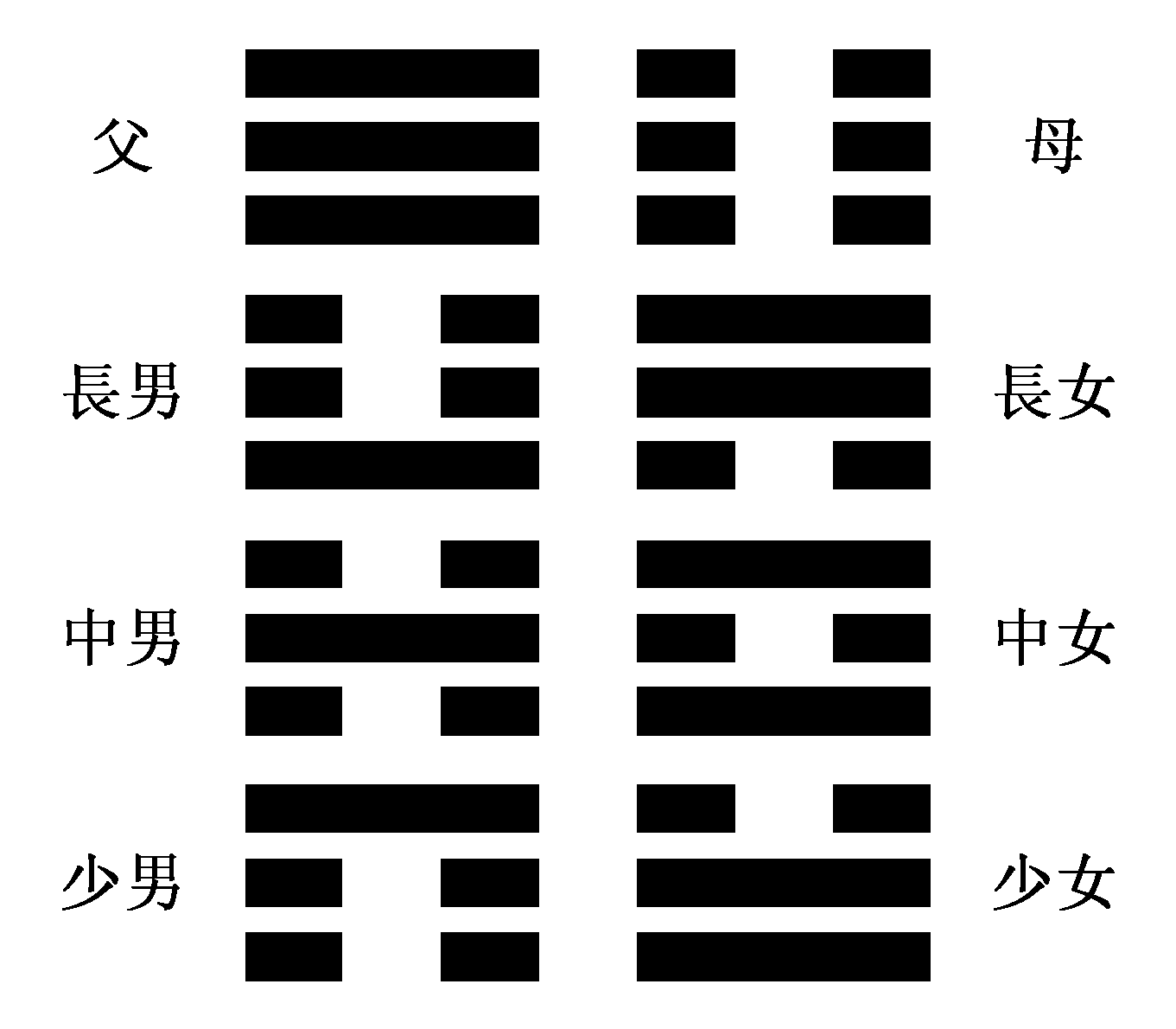 Family Ba Gua